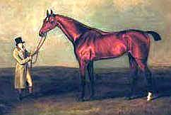 Crop of File: Cardinal Beaufort.jpg. Thoroughbred racehorse and winner of 1805 Epsom Derby.